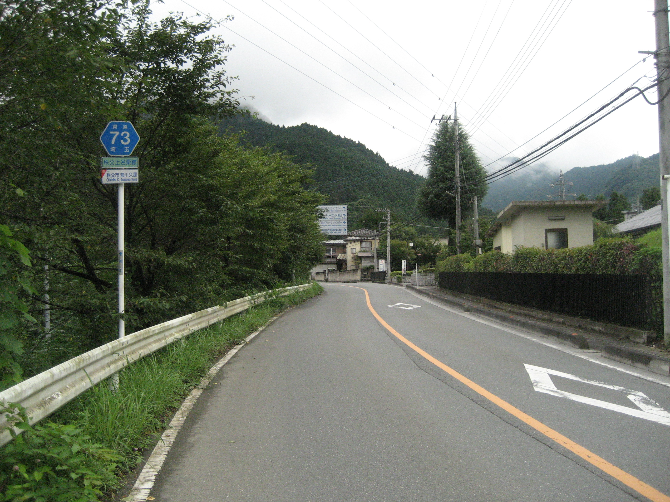 The Saitama Prefectural Road Route 73 in Chichibu City